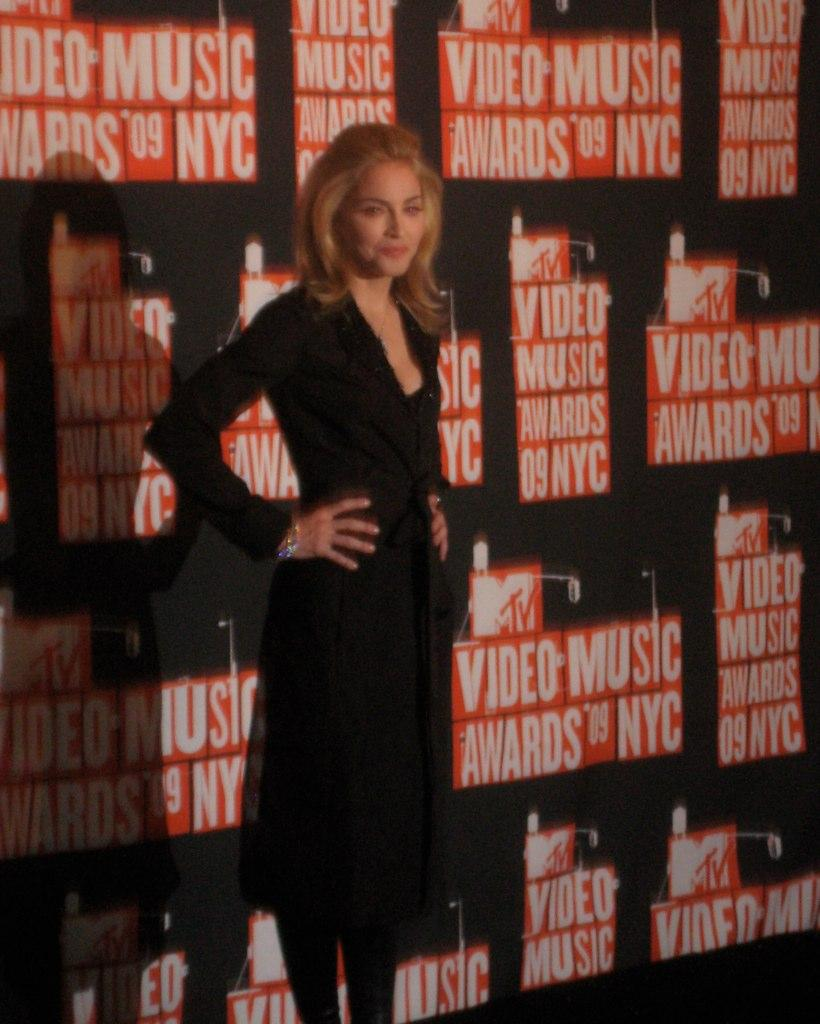 Madonna at the 2009 MTV Video Music Awards.